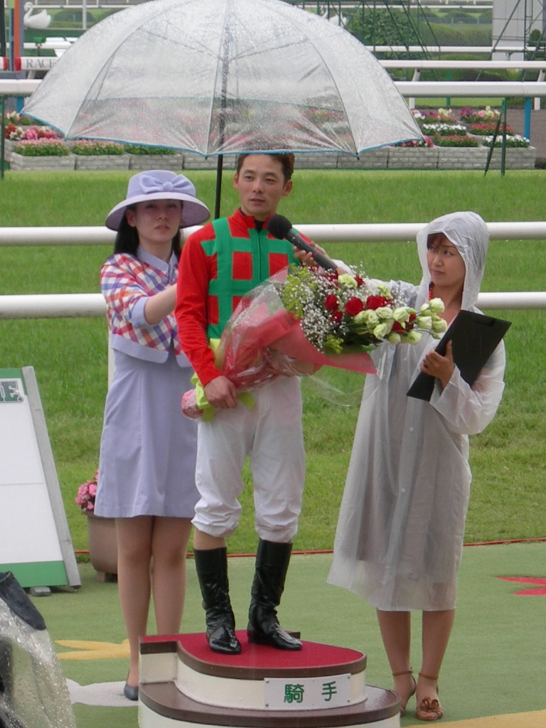 Fuyuki Igarashi, Jockey from Japan. Taken in 2006.